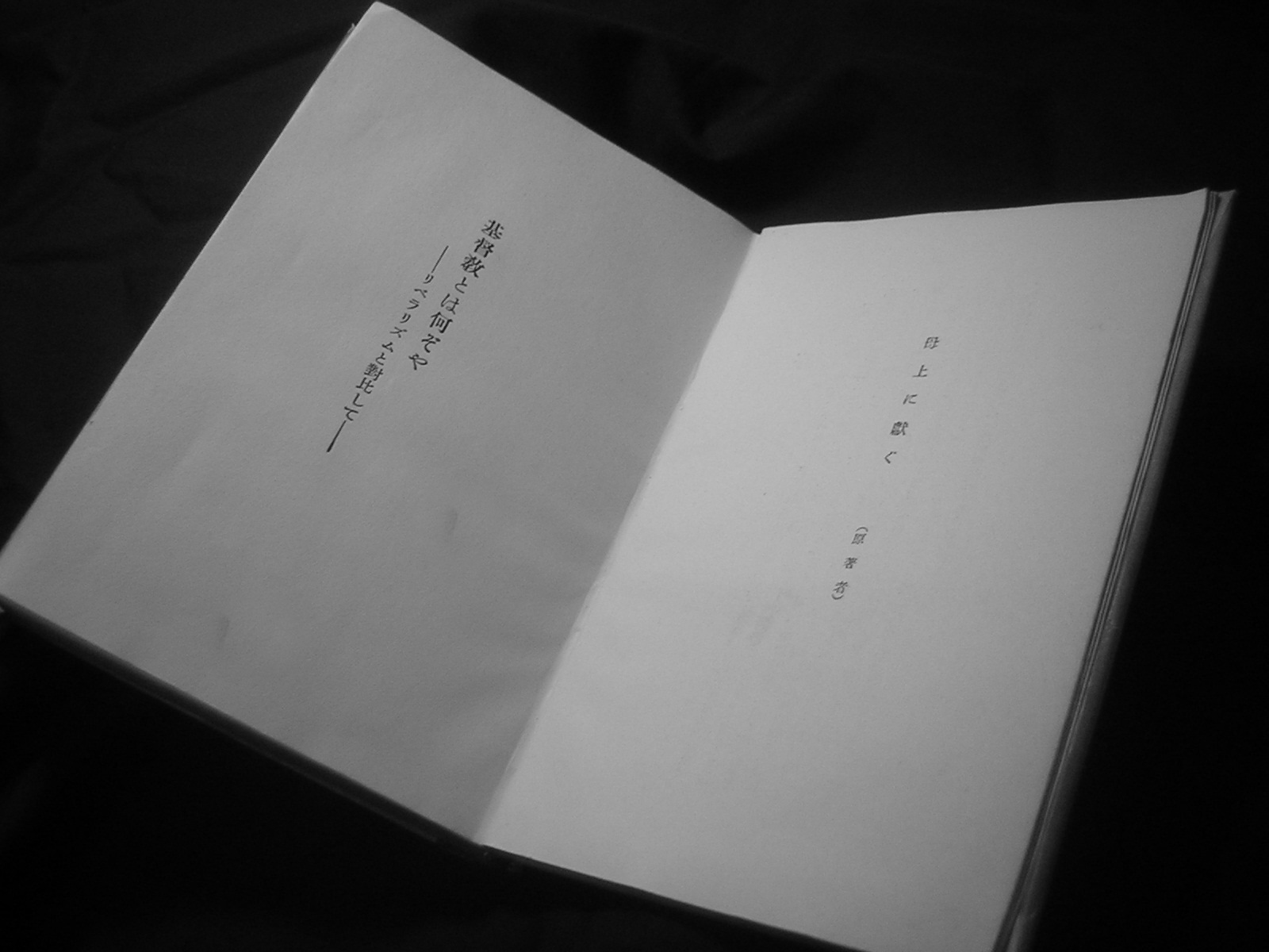 Christianity and Liberalism John Gresham Machen